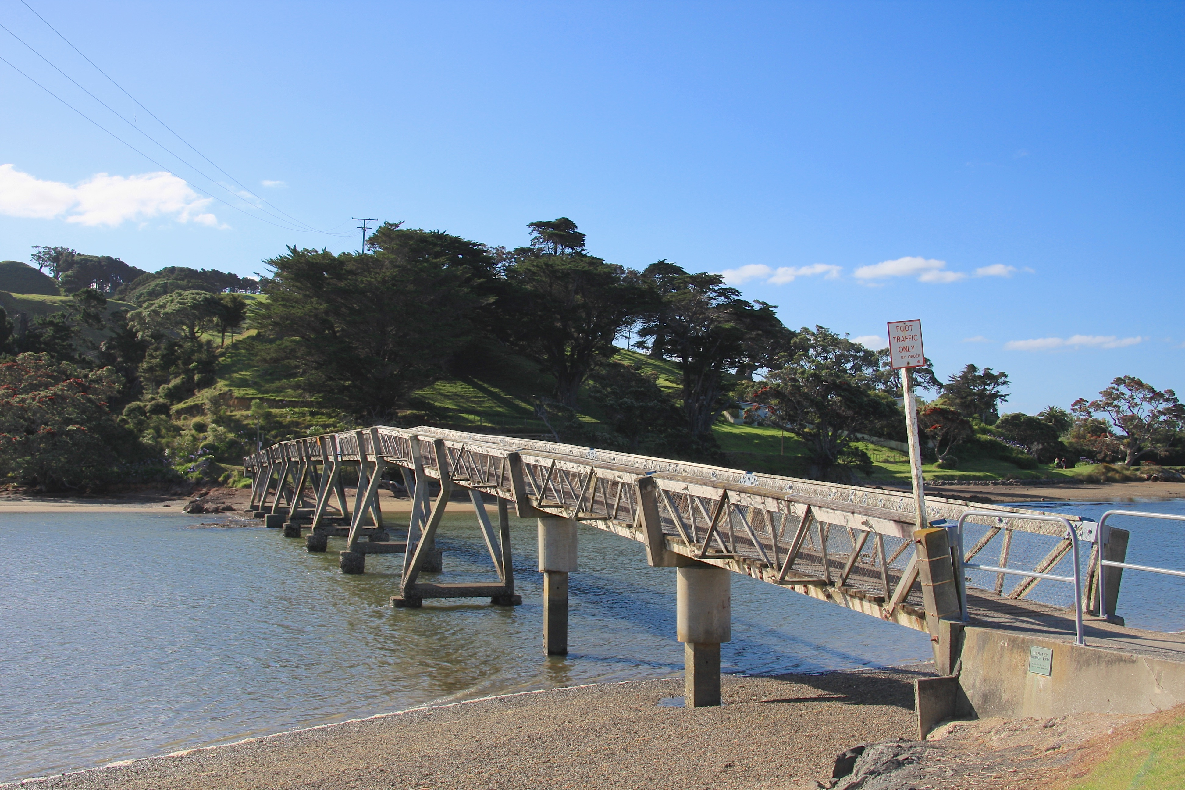 Footbridge across the Pataua River connects the settlements of Pataua South and Pataua North, east of Whangārei in New Zealand